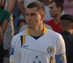 Vyacheslav Checher